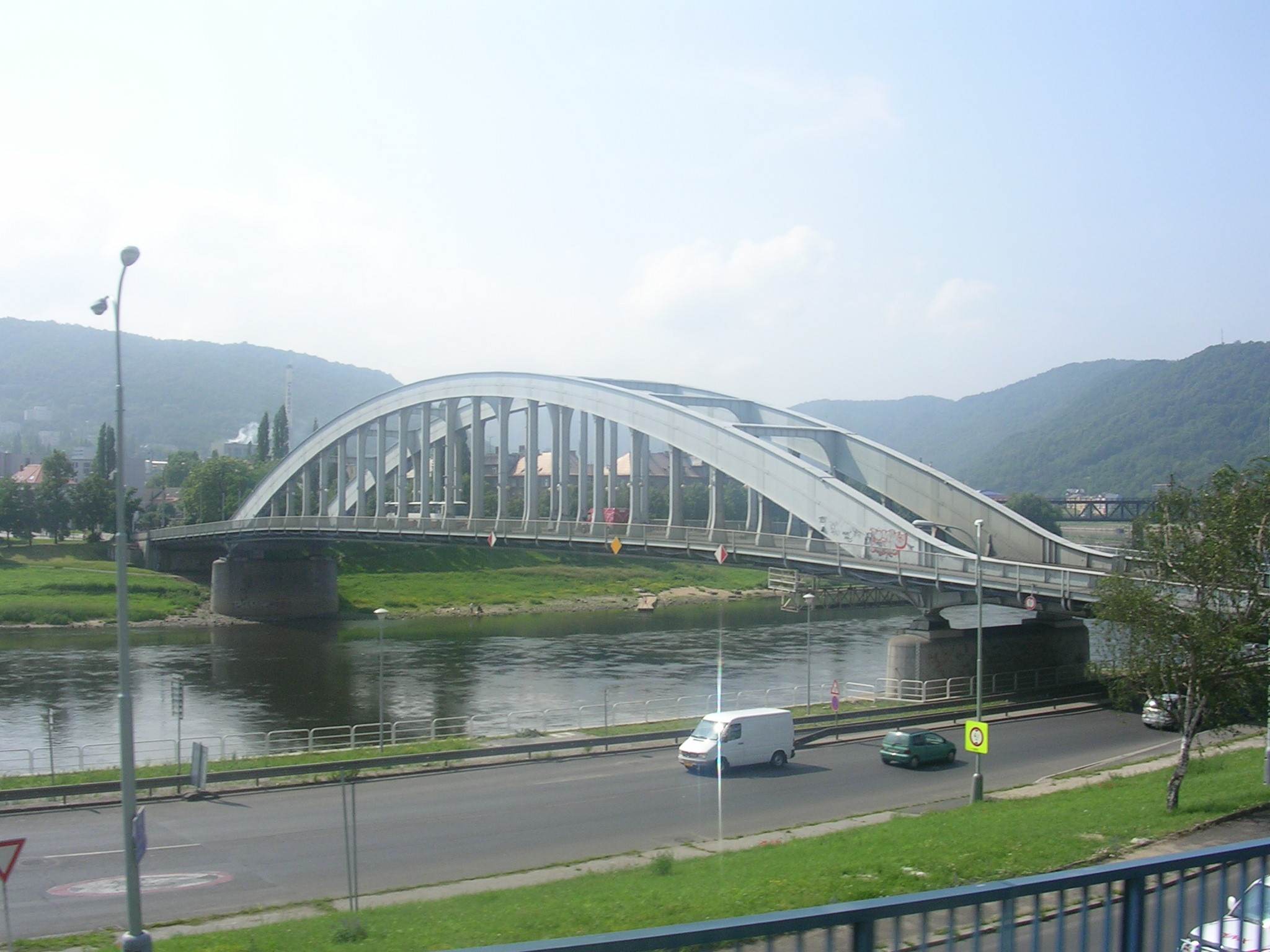 Bridge of Edvard Beneš, Ústí nad Labem, the Czech Republic.